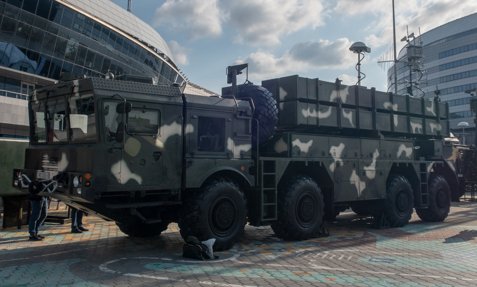 Belarusian-made Polonez MLRS. Photo taken at Milex-2019 arms and military machinery exhibition (Minsk, Belarus)